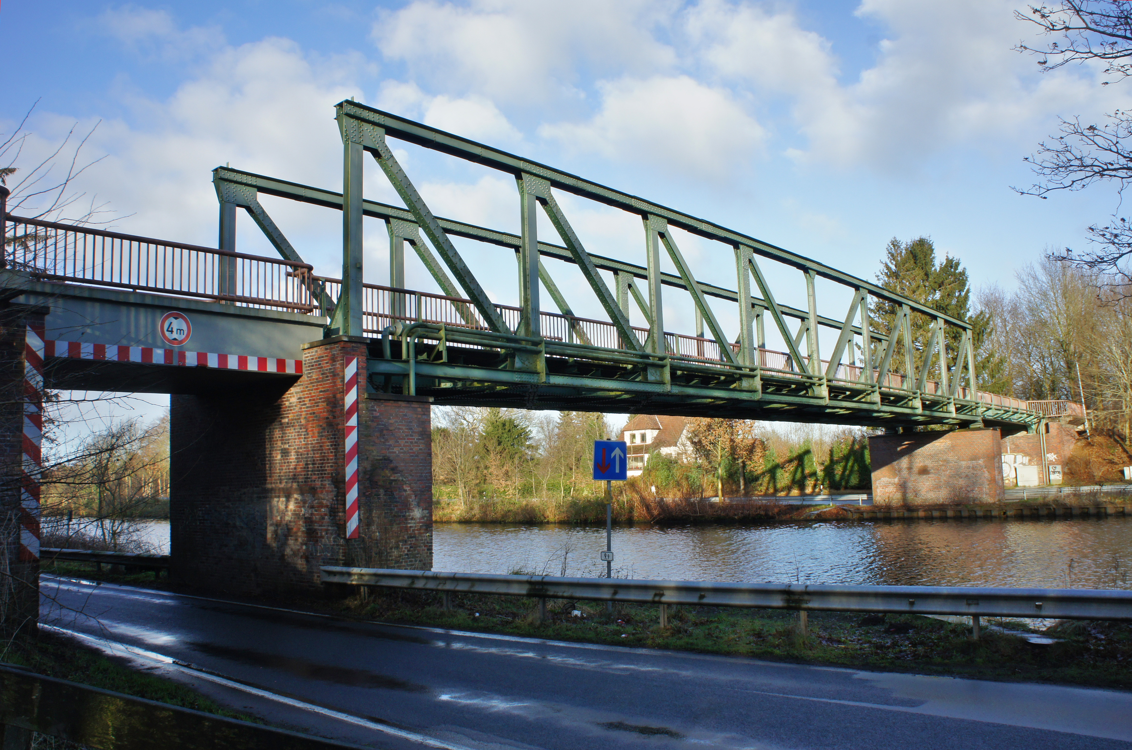 Old railway Bridge over the Kuestenkanal